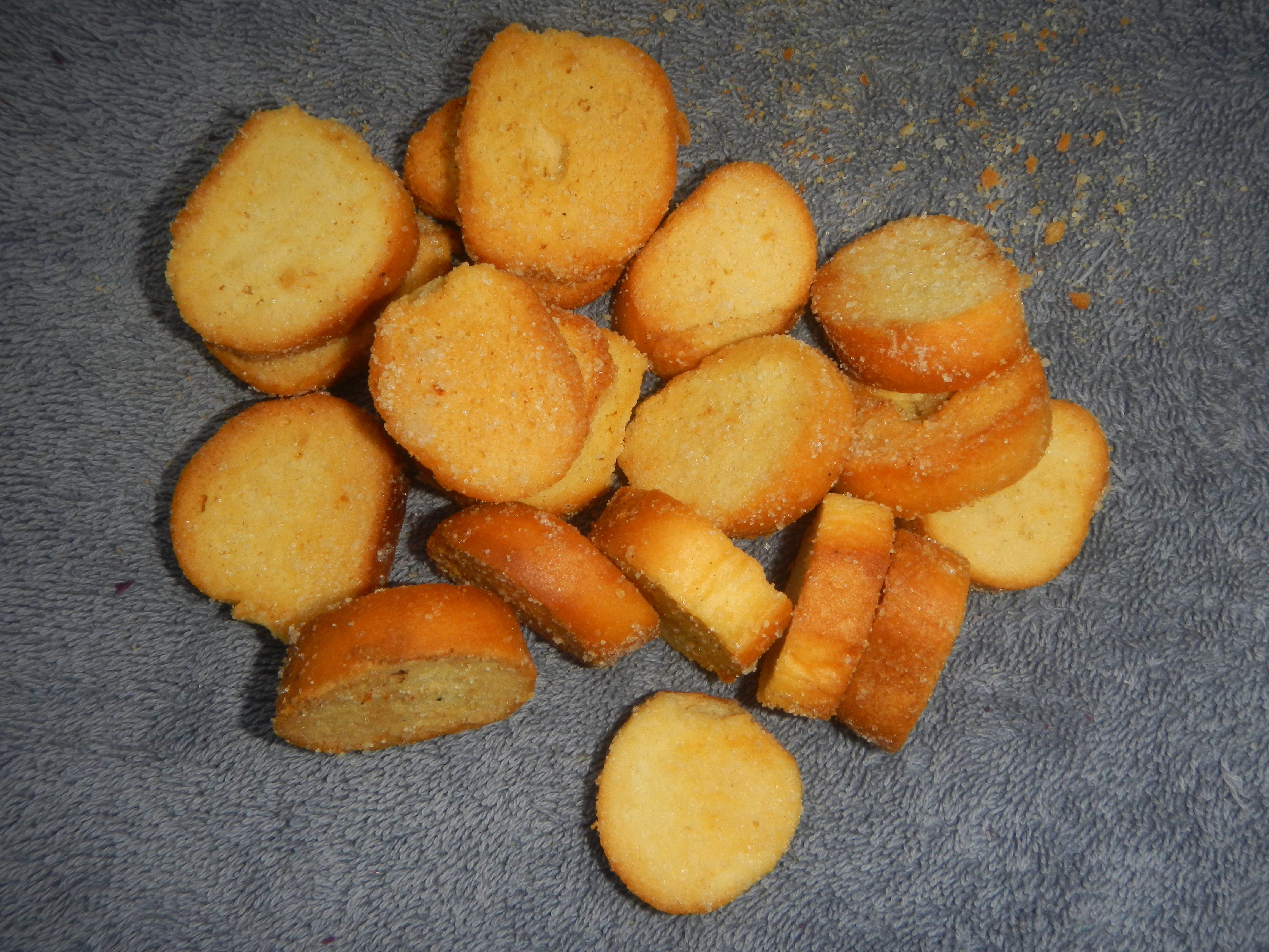 Uraró (aroowroot) biscuit Biskotso Biscocho de Manila Jacobina (food) photos taken in Baliuag, Bulacan, Bulacan (Note: Judge Florentino Floro, the owner, to repeat, Donor Florentino Floro of all these photos hereby donate gratuitously, freely and unconditionally all these photos to and for Wikimedia Commons, exclusively, for public use of the public domain, and again without any condition whatsoever).